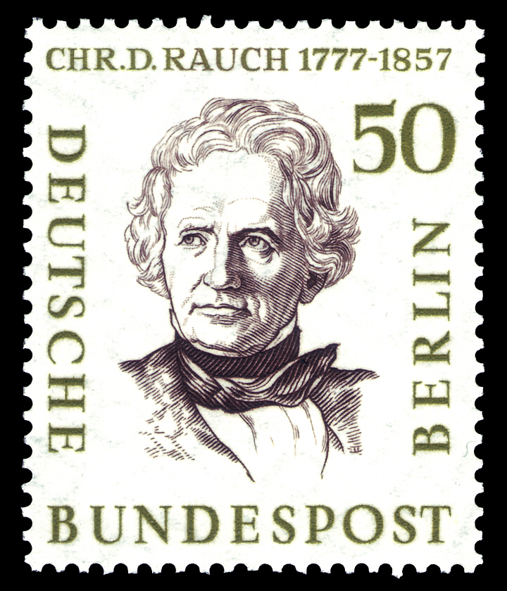 stamp series, men of the history of Berlin II, Christian Daniel Rauch, (1777-1857)